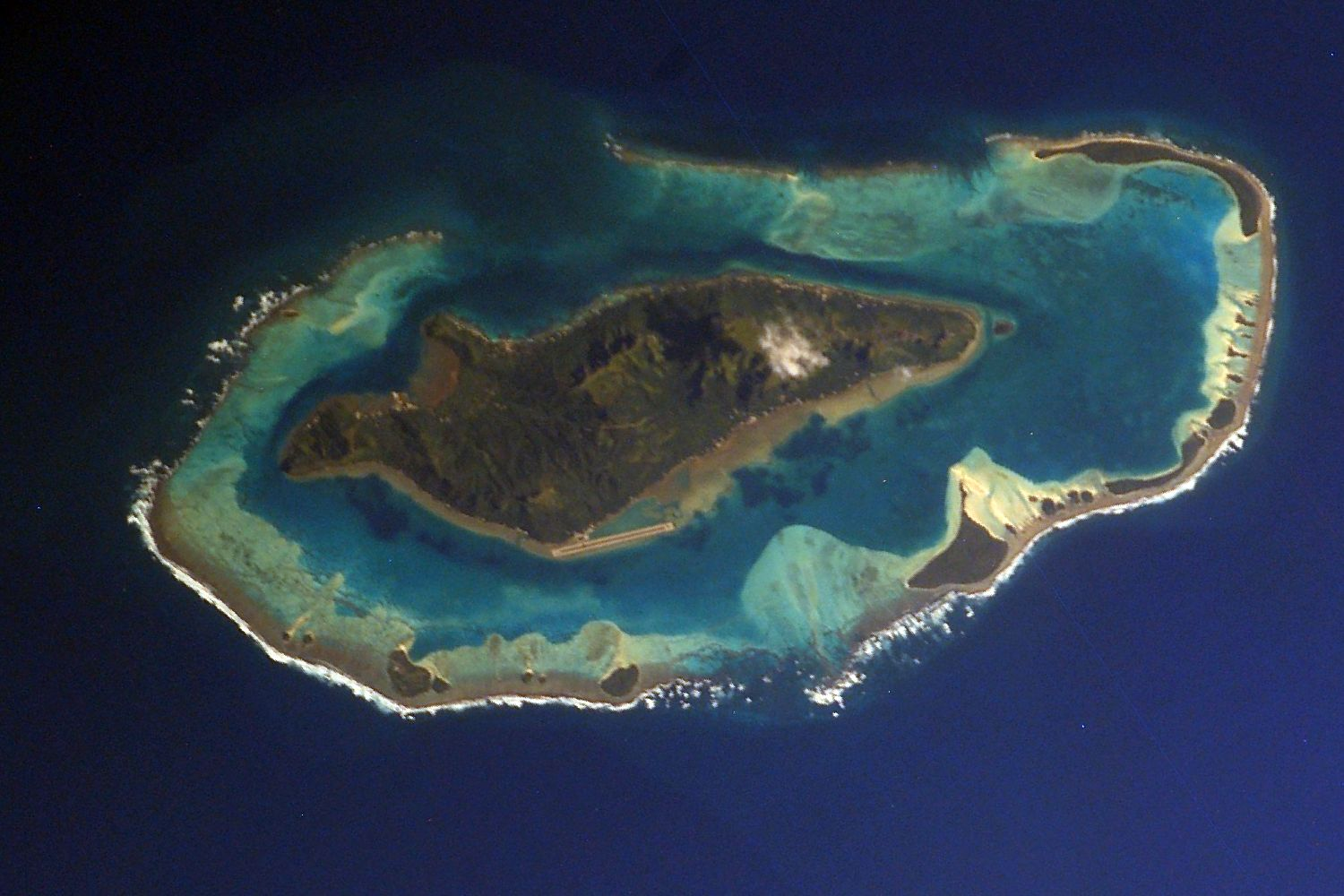 NASA astronaut image of Raivavae, Austral Islands, French Polynesia